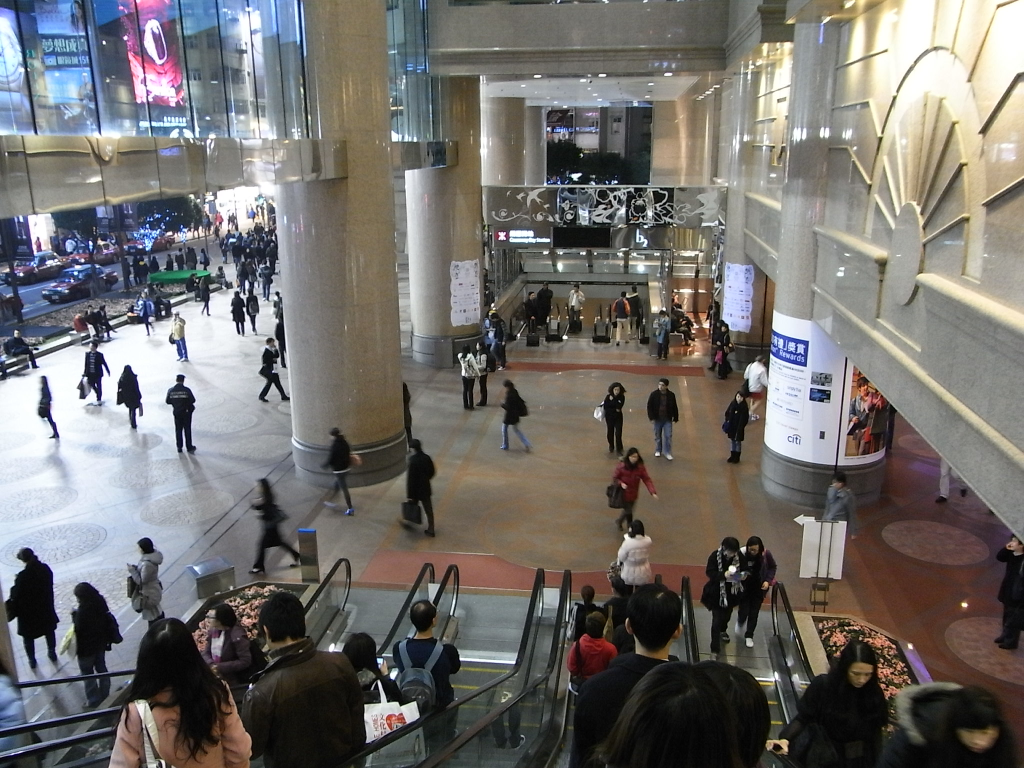 香港時代廣場